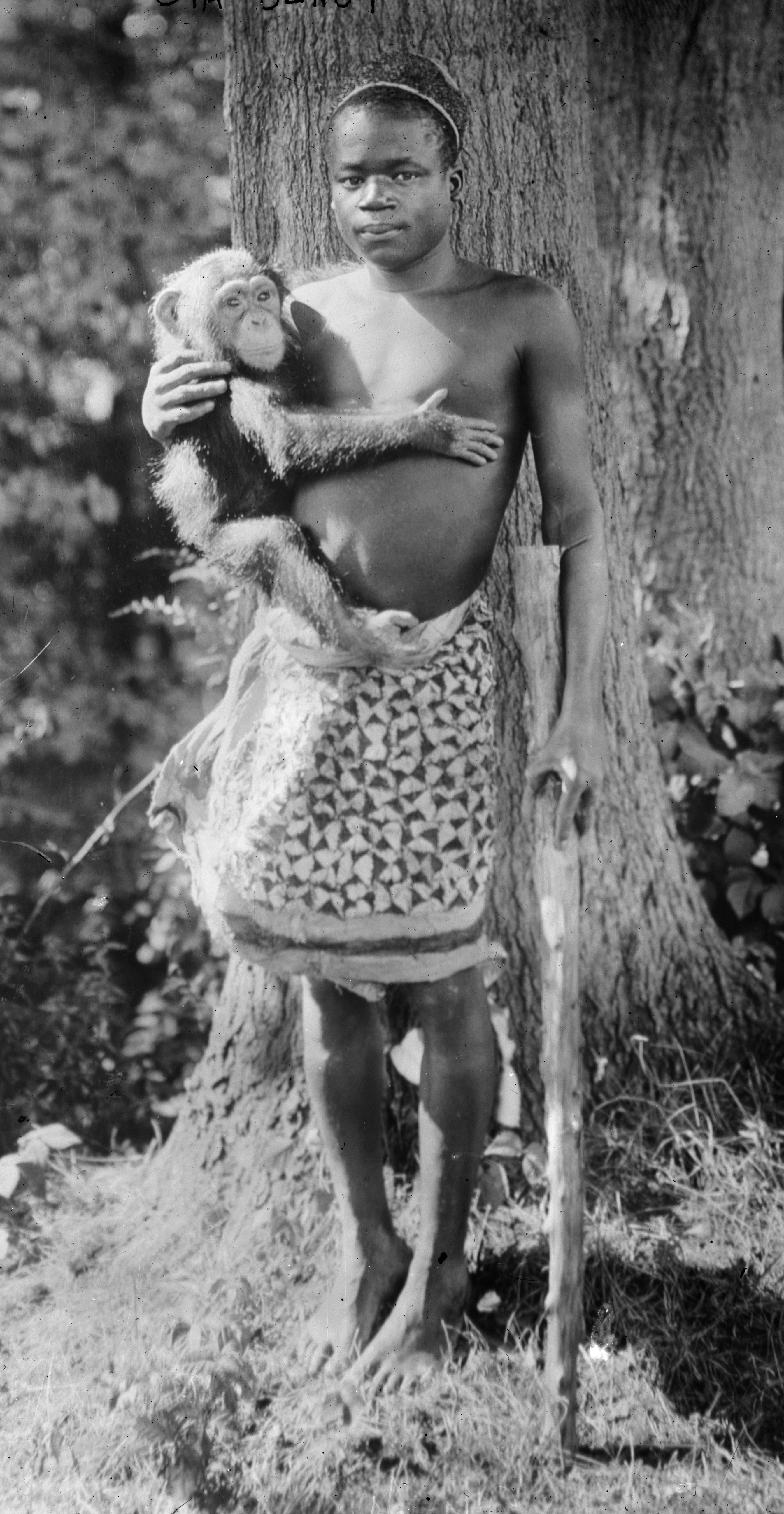 1906 photograph of Ota Benga, described as being taken at Bronx Zoo. Author unknown.